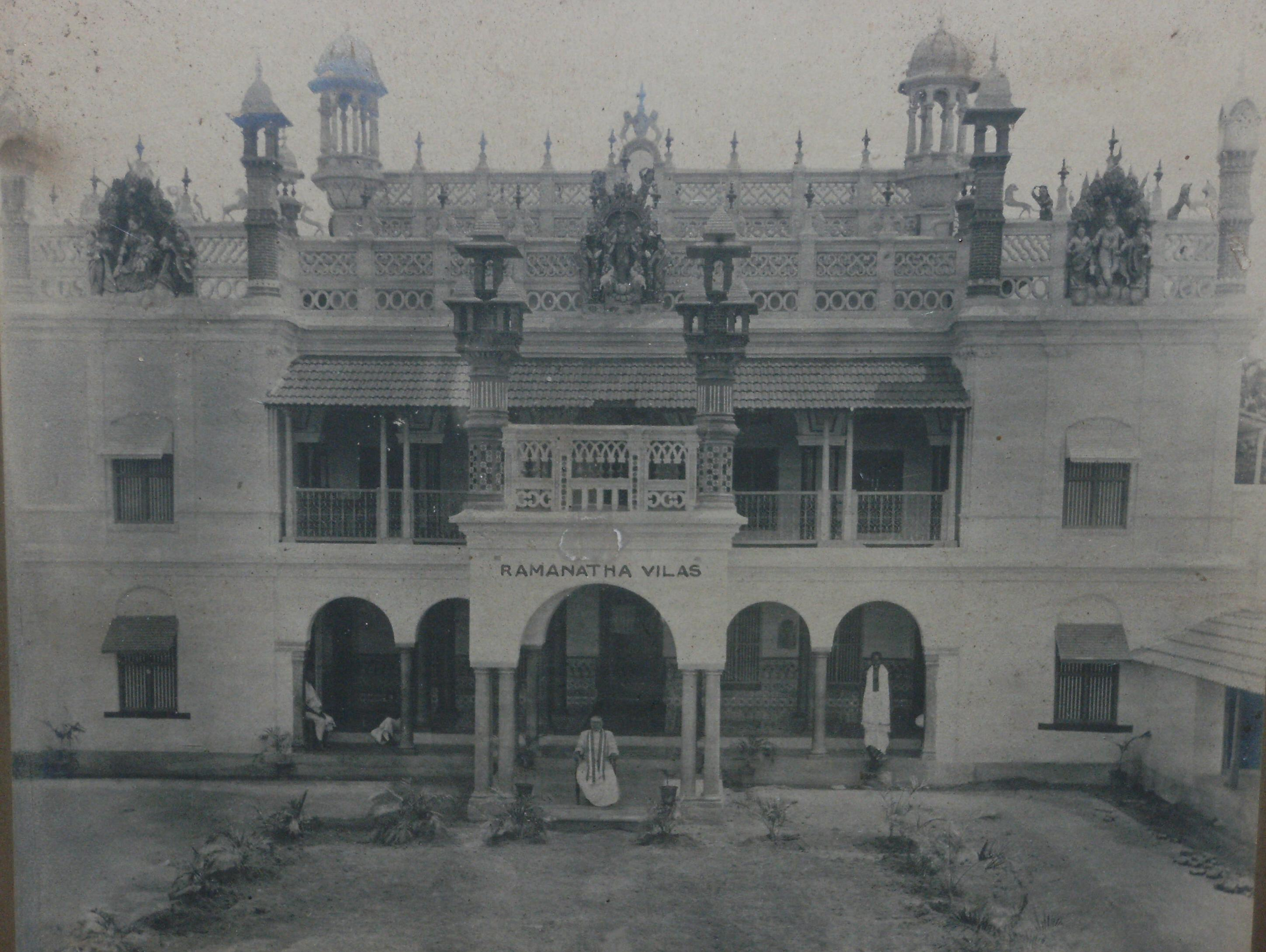 V.RM.L HOUSE